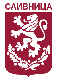 Coat of arms of Slivnitsa, Bulgaria